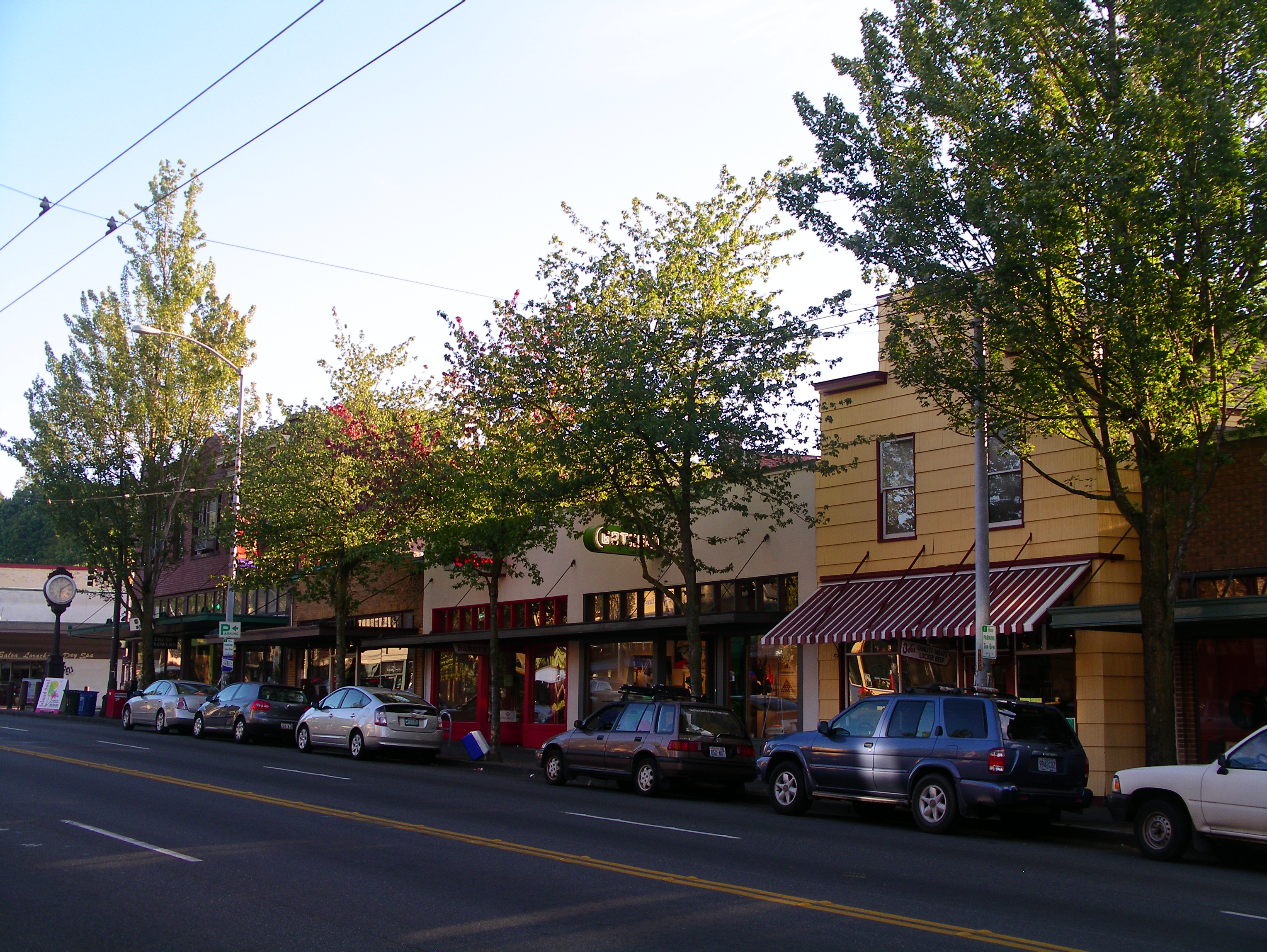 Rainier Avenue is the main shopping street in Columbia City, Seattle, WA.